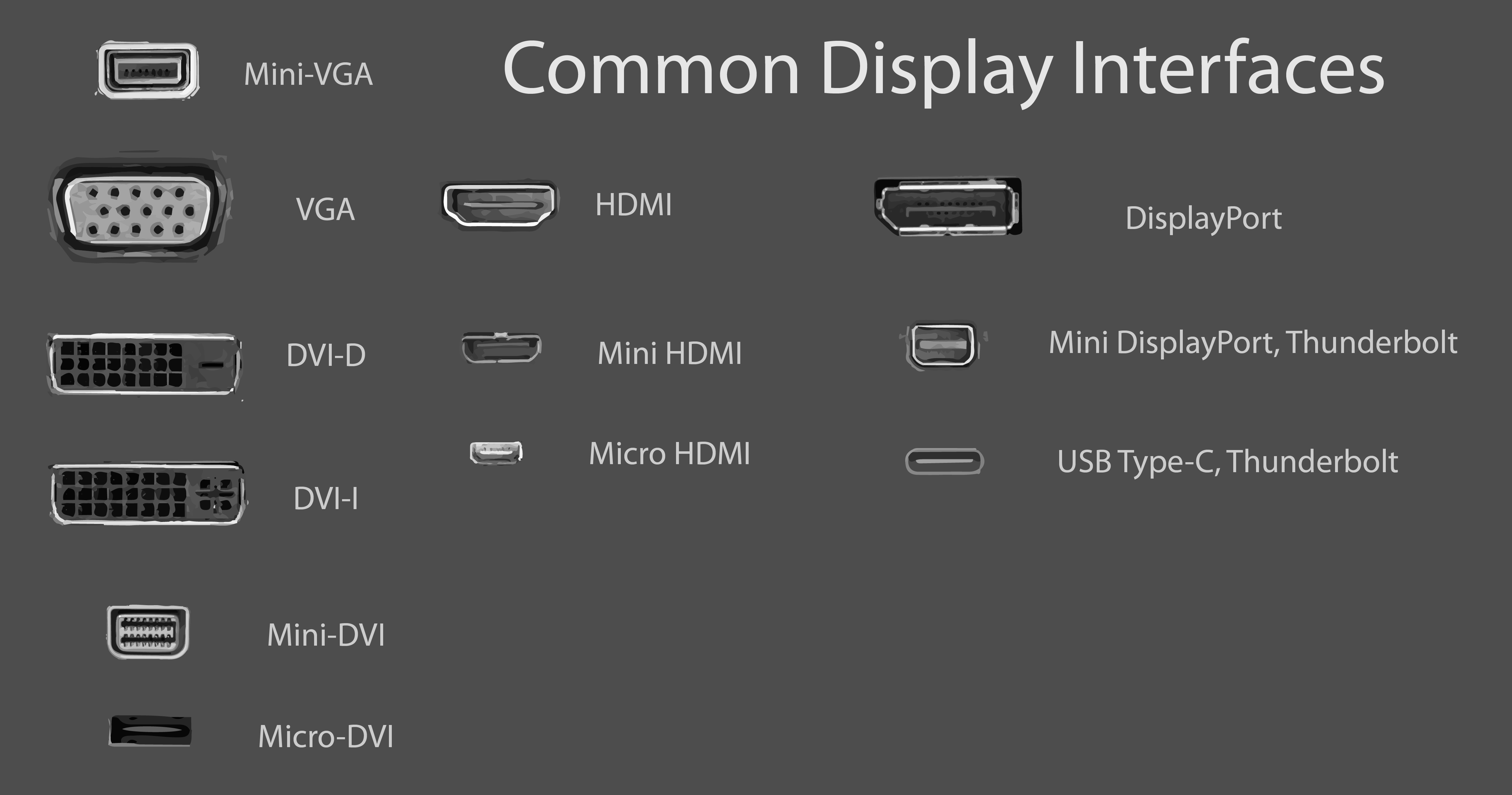 Vector graphic showing common display interface receptacles.